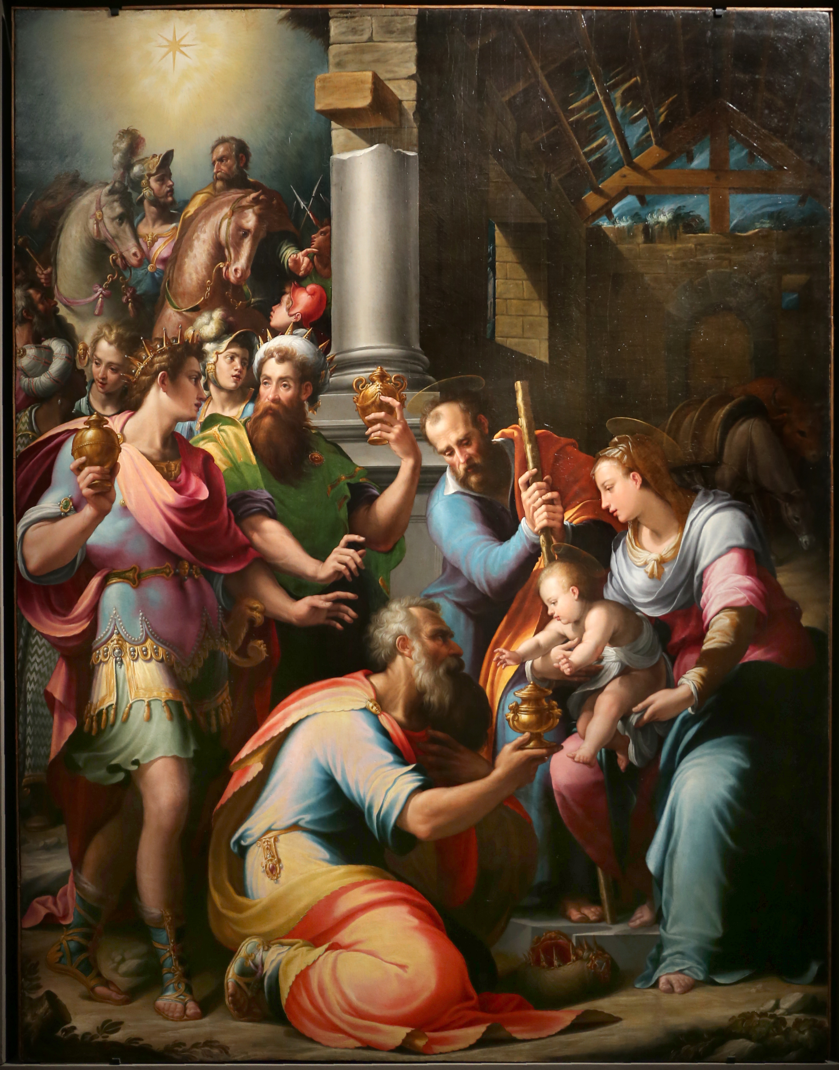 Adoration of the Three Kings by Girolamo Macchietti